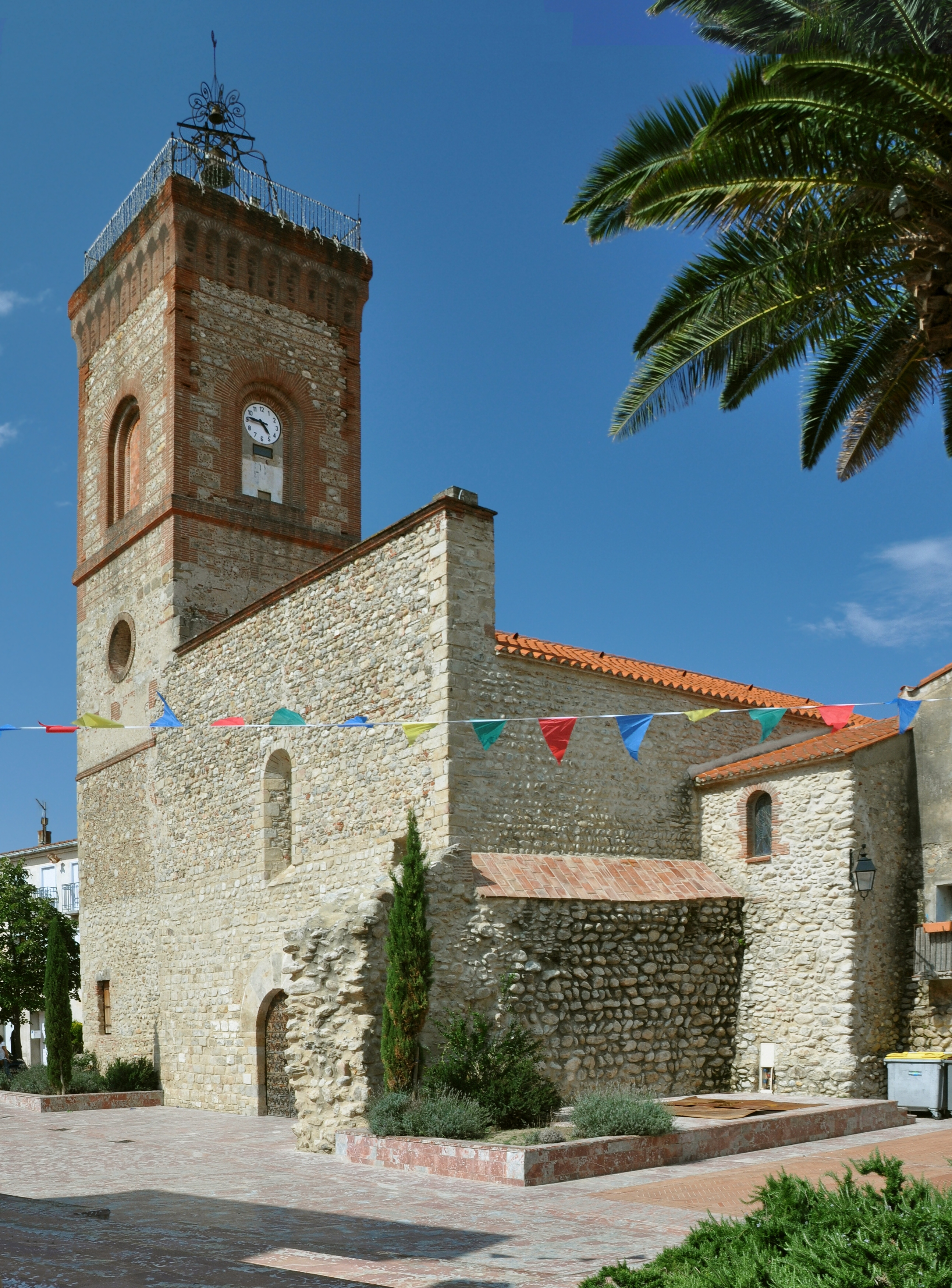 Church Saint-Sébastien at Palau-del-Vidre, Roussillon, France